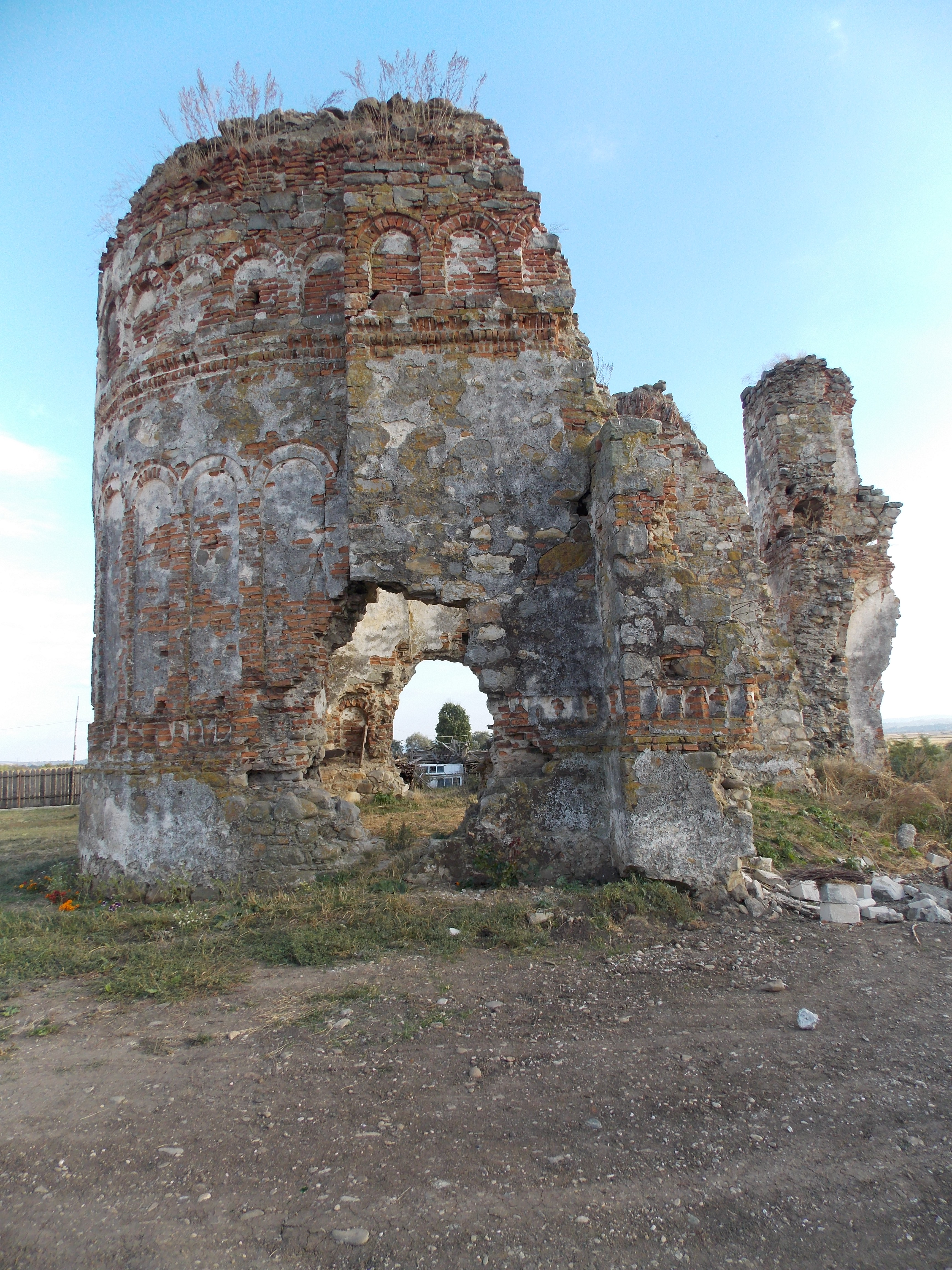 The ruins of the Bociuleşti Monastery (1629); Podoleni village, Neamț County, Romania)